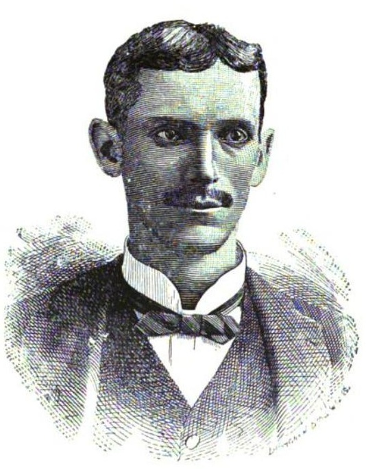 Dennis T. Flynn, Oklahoma Congressman